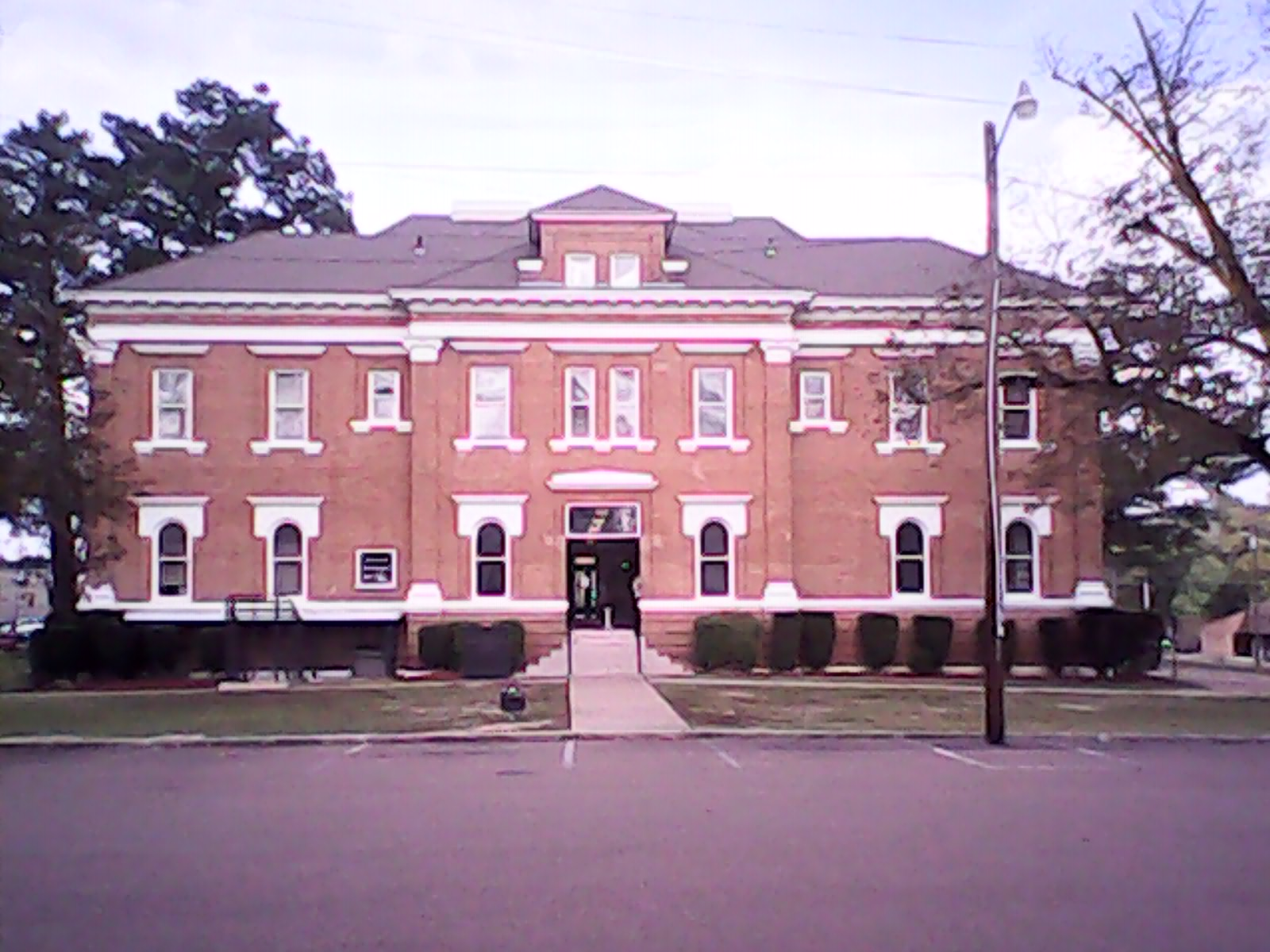 Covington County Courthouse - War Memorial Entrance